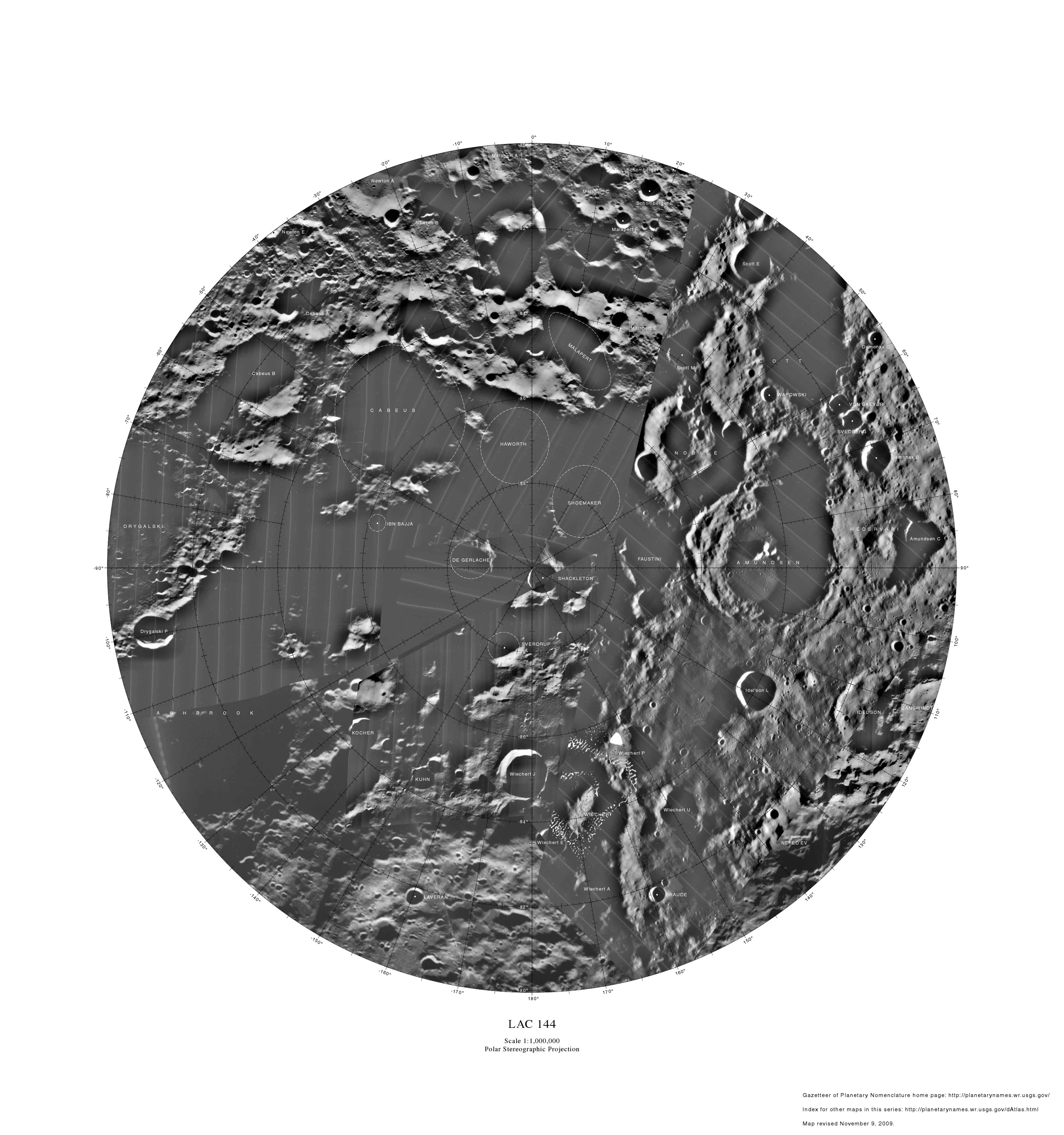 Lunar map depicting craters on the south pole of the moon. LAC 144. Polar Stereographic Projection. Map revised November 9, 2009. Index for other maps in this series